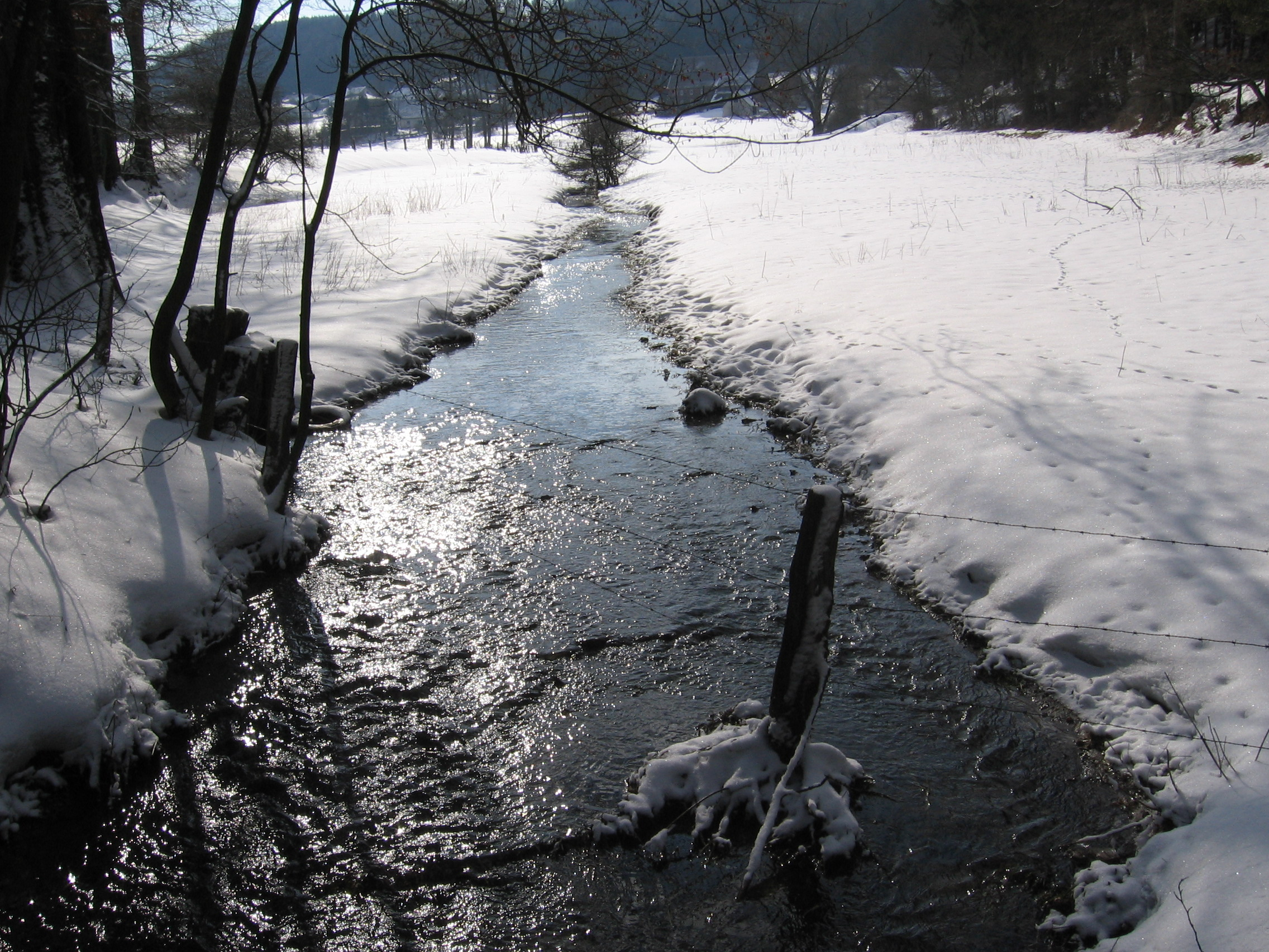 The small river Silberbach near the German village Feldrom.